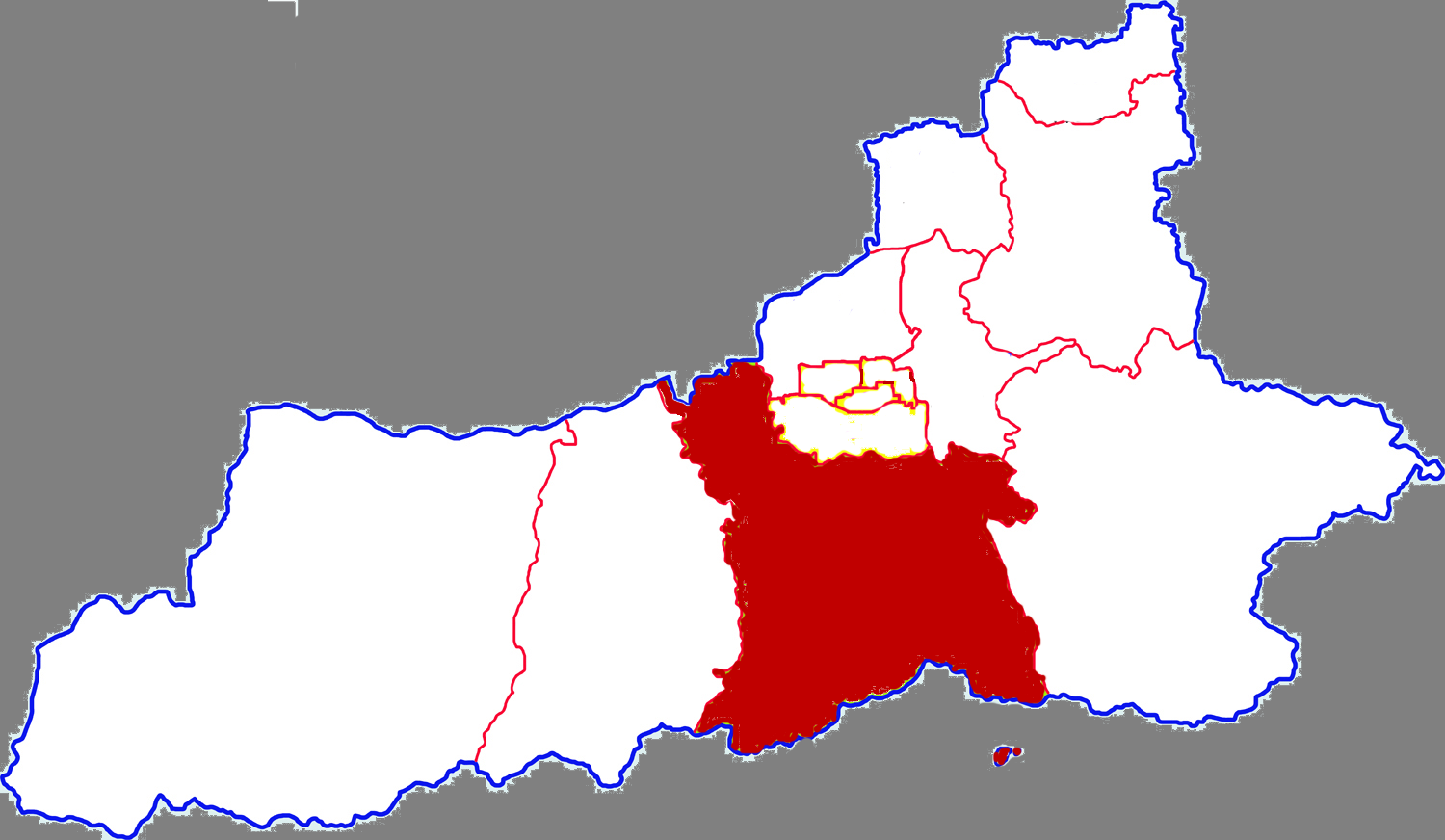 Location of Chang'an district in Xi'an city, China